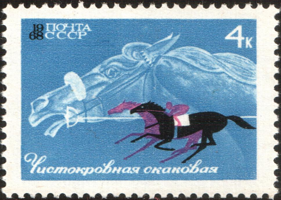 USSR stamp: Thoroughbred and Horse Racing. Series: Soviet Horse Breeding and Riding